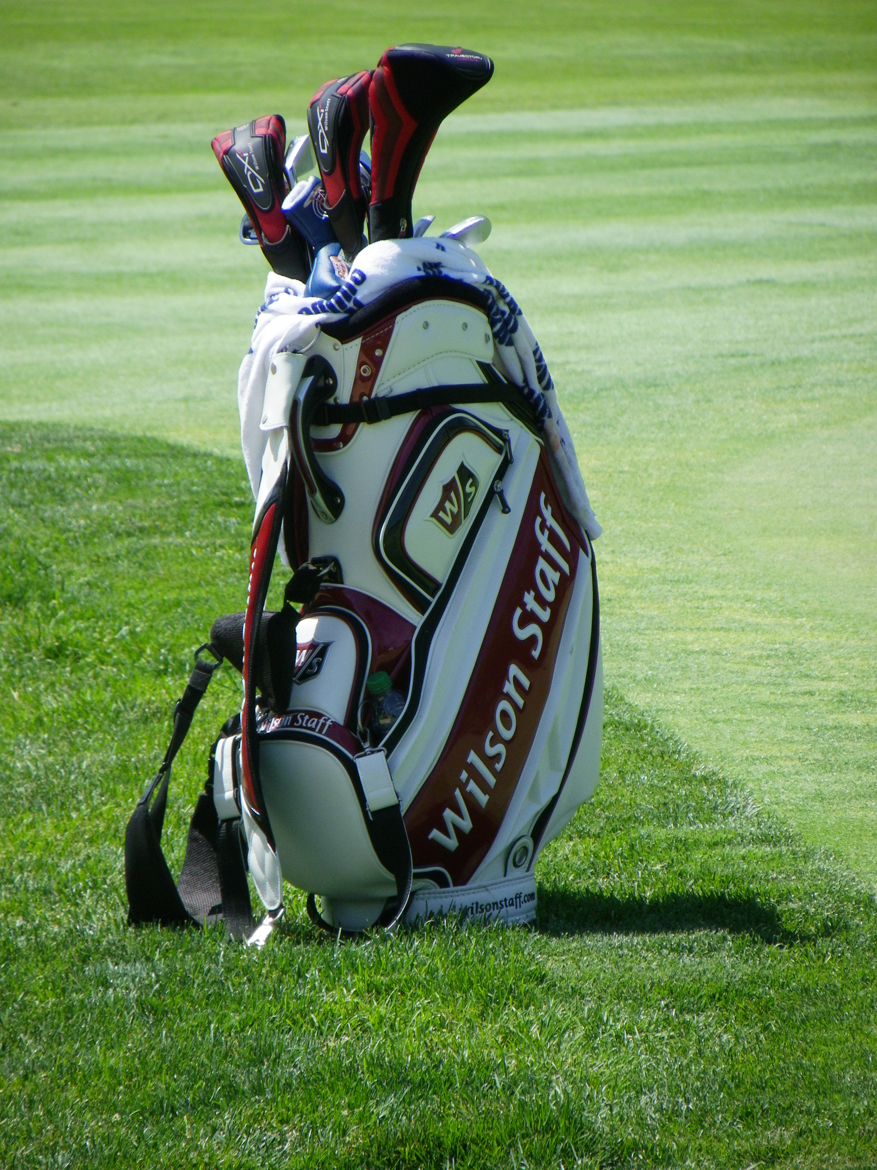 Wilson Staff pro (staff) golf bag as used by Ricky Barnes at the 2011 Memorial Tournament